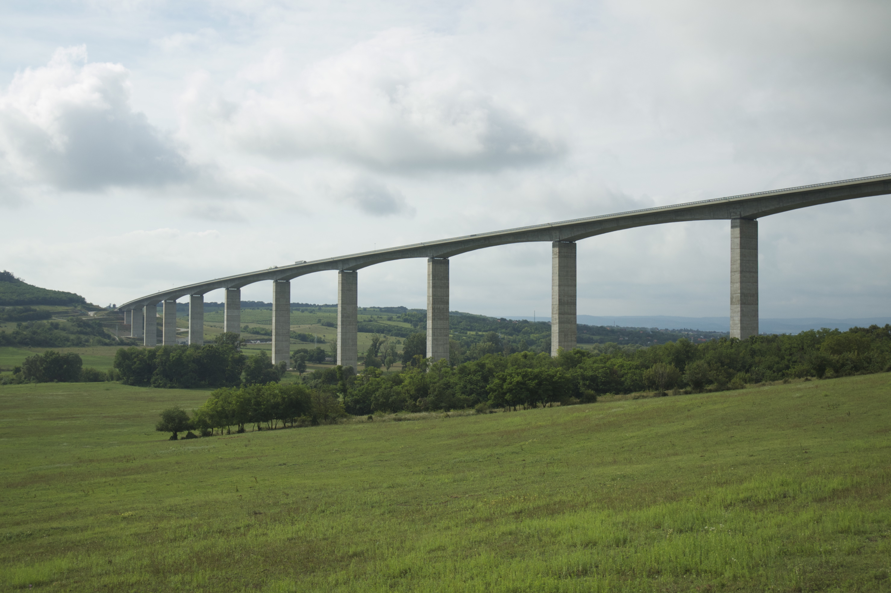 Kőröshegy viaduct, Hungary